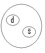 a meson